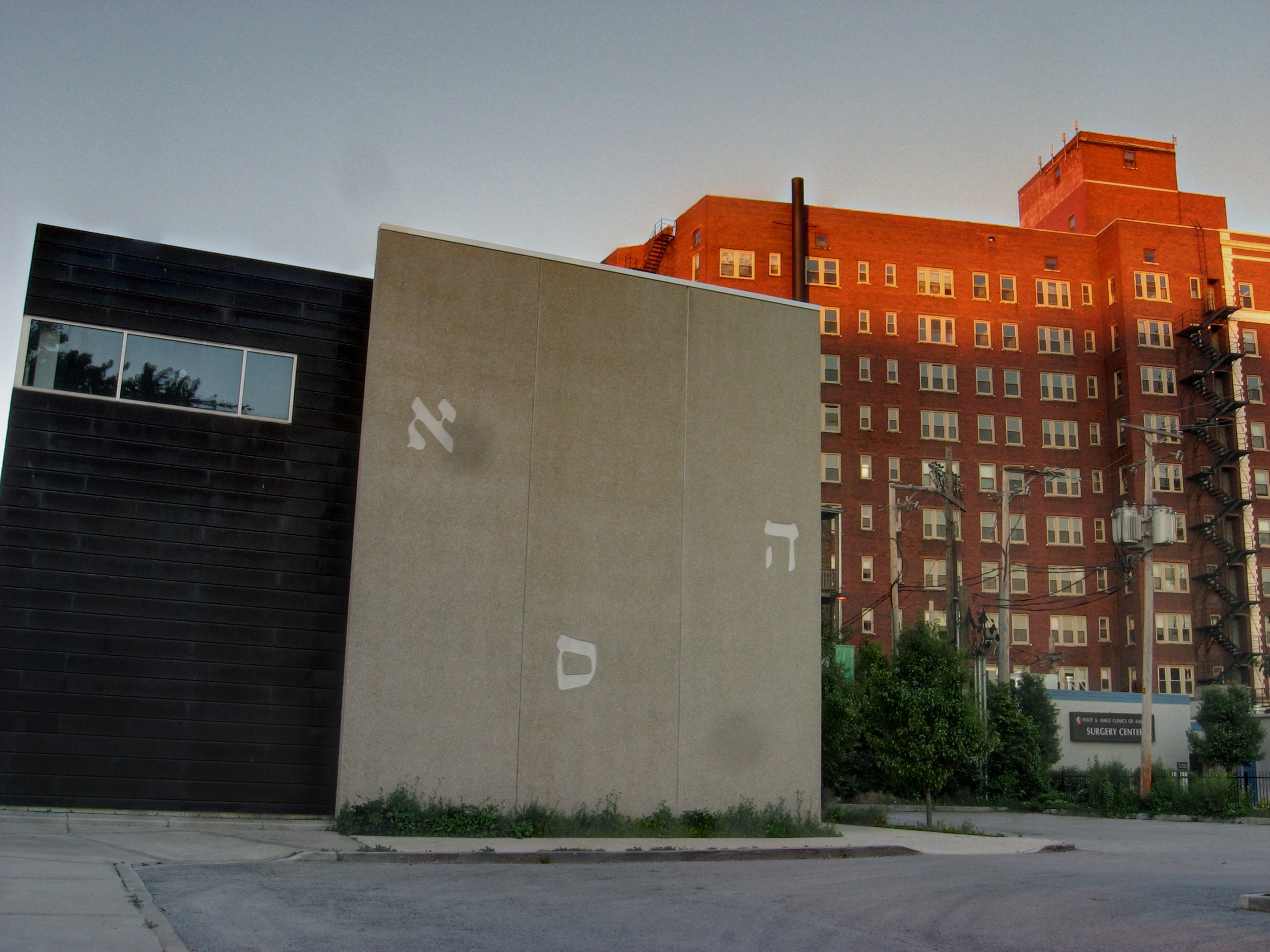 HDR version of the western-facing wall of the Akiba-Schechter school building.